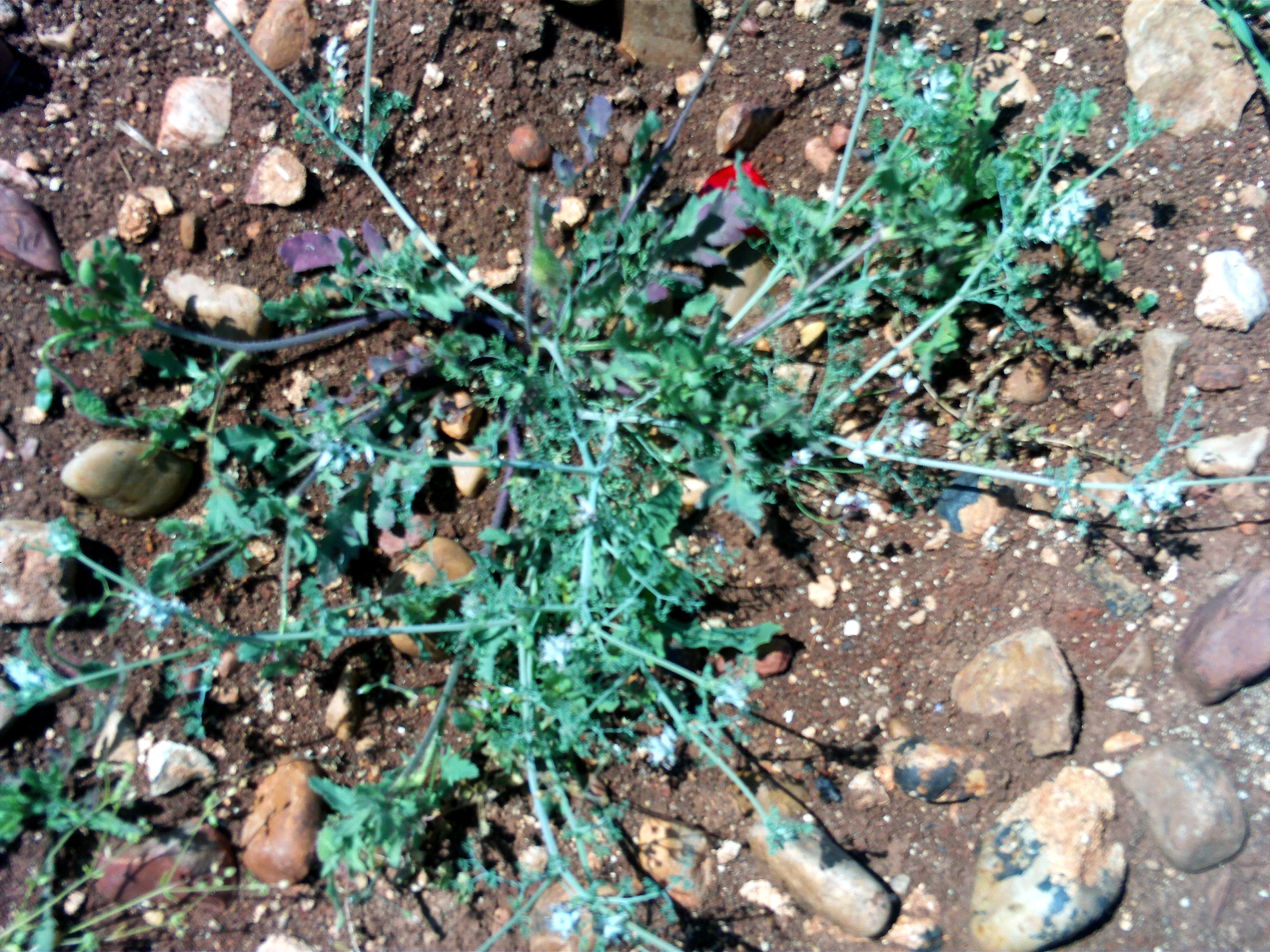 Fumeria capreolata Habitus, Dehesa Boyal de Puertollano, Spain